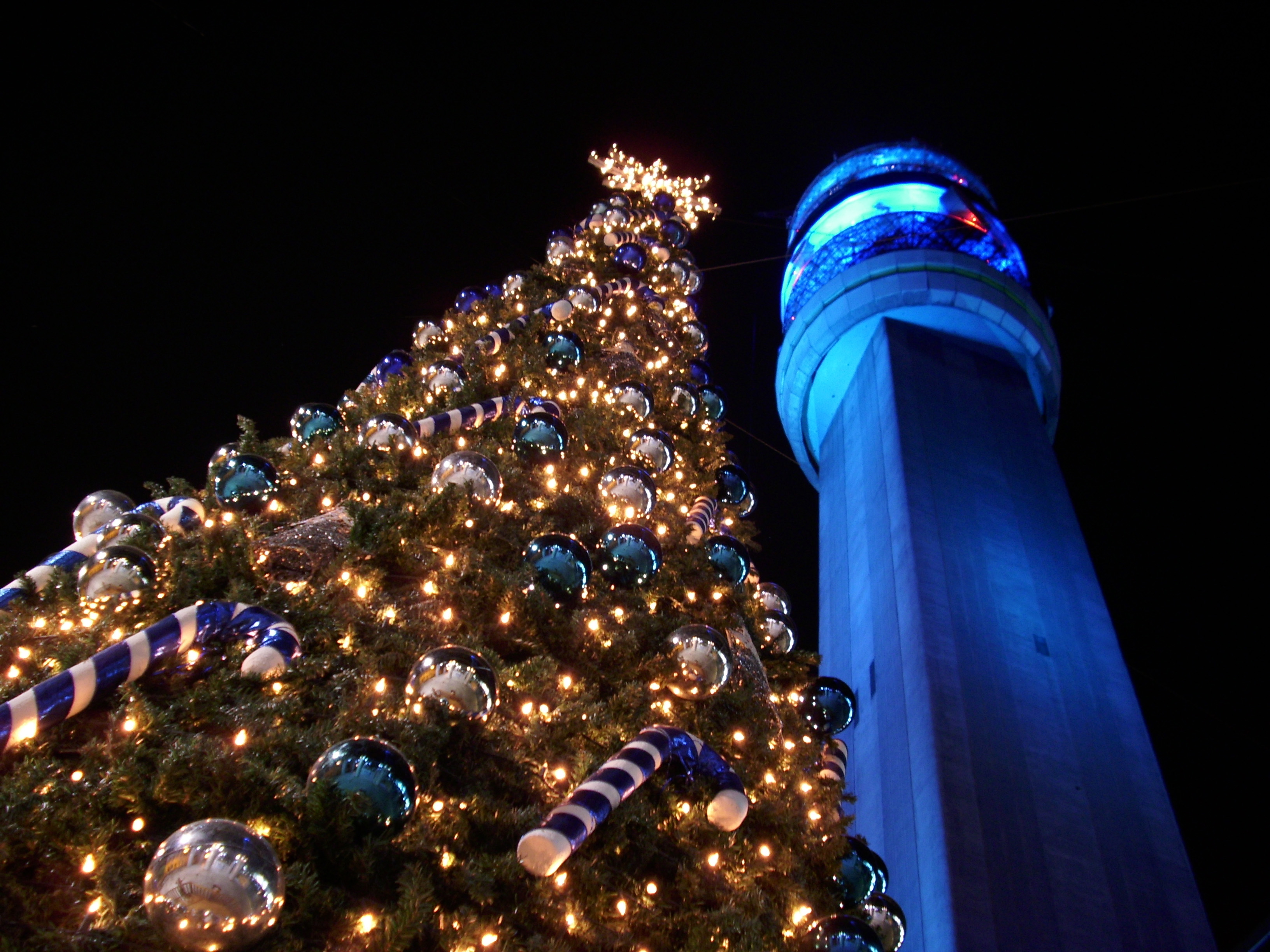 A Christmas tree, located next to the Entel Tower in Santiago de Chile.